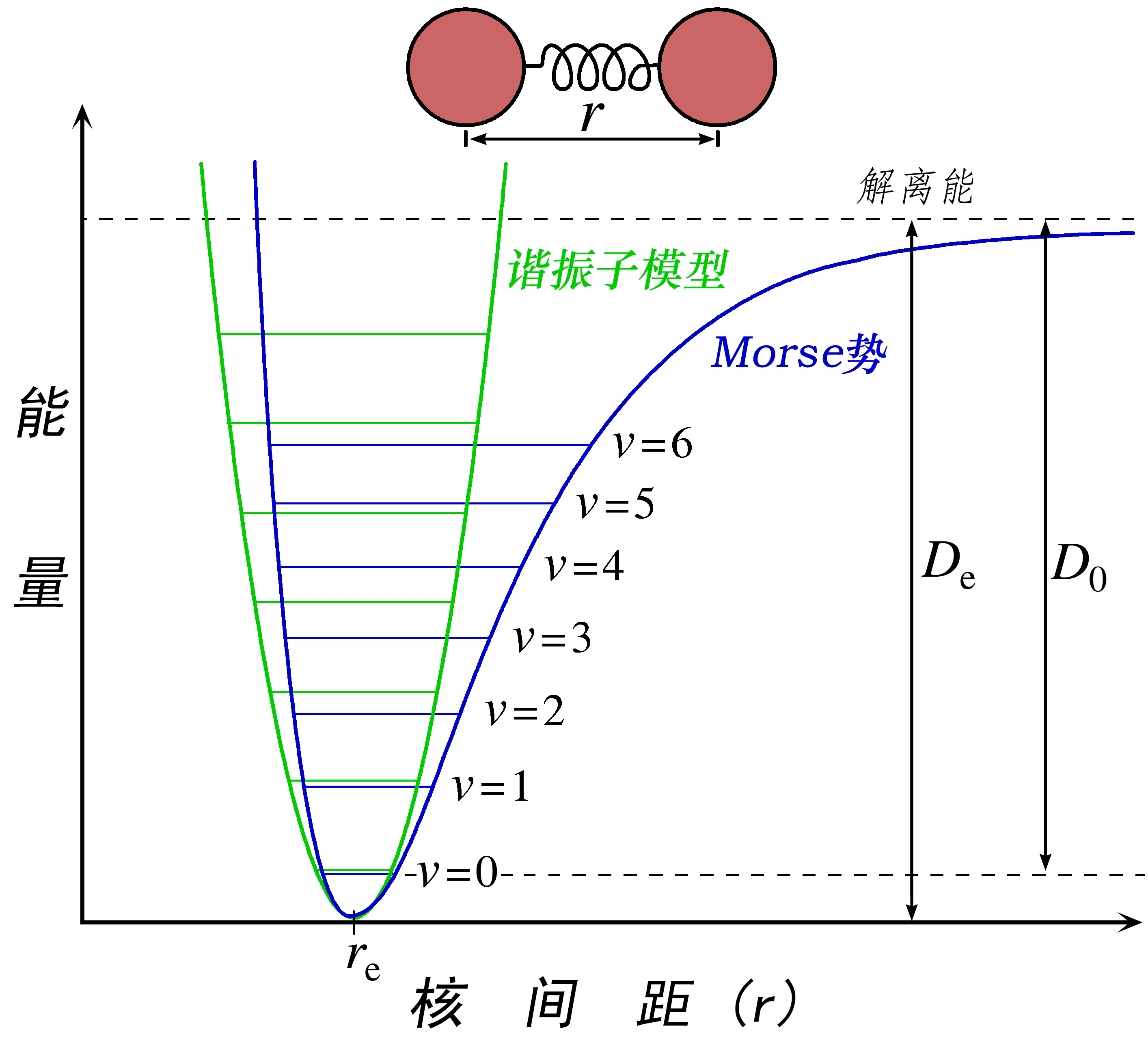 other versions